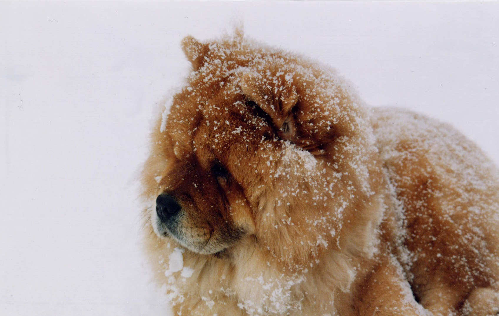 A chow chow in the snow, self-taken and scanned.